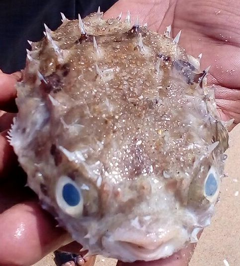 DEAD PORCUPINE FISH FOUND AT BEACH PILLAYARKUPPAM,PUDUCHERRY